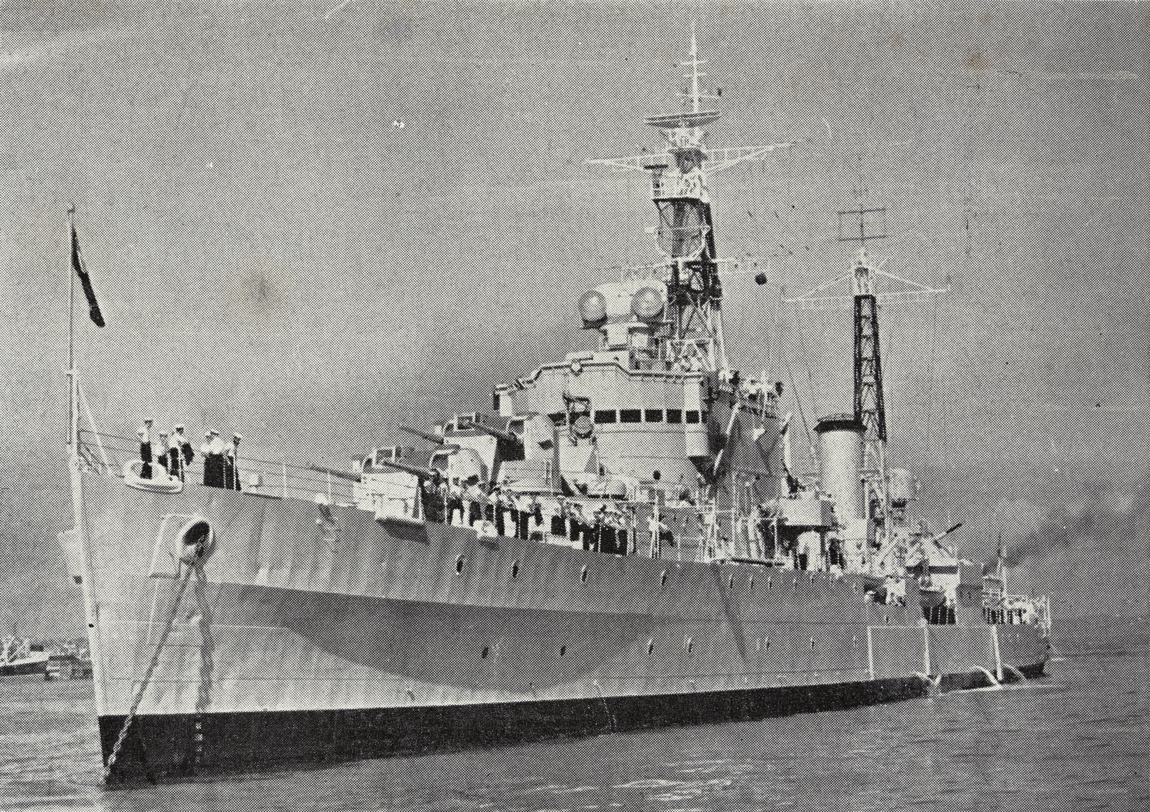 HMNZS Royalist after dropping anchor in Waitemata Harbour, December, 1956 shows Royalist configuation in the days building up to Operation Musketter with the RNZN cruiser with the British fleet, and the British CNS pressing the civilian First Lord Hailsham, to tell NZ PM Sydney Holland, that the NZ cruiser capabilities were essential to support Musketter while NZ diplomats McIntosh and Frank Corner, told Holland he was being asked to participate in illegal warfare and collaboration in violation of the UN Charter and NZ was quite likely to join France and the UK in the World Court dock for unprovoked criminal aggression.They rejected RN and British arguments for the cruisers value, on the common sense grounds that it was unique, and why did they sell it to us?? ( of course the ruling assumption of the UK establishment was NZ was us- Eden was about to discover, Corner and McIntosh certain I y weren't us) Excellent photo, showing the full, radar and AA defence, angle coverage of 5.25 & 40mm STAAG Mk 2 AC CIWS mounts, the position of the forward Q position STAAG and its 262 radar antenna on the mount is nb, fitted lower than the 40mm quad pom pom on Black Prince and Bellona or US quad Bofors in Q on Phoebe and Cleopatra in Q position 1944-51. From a collection of photographs depicting the return of the HMNZS Royalist for Christmas, 1956, published in:"Royalist home for Christmas". The Weekly News (Auckland, New Zealand: Wilson and Horton): p. 30. 26 December 1956. OCLC 29121953. Photograph taken 1956 by an unidentified photographer. Original page physical description: Photolithograph on page, 435 x 310 mm. This version has been cropped, and has had brightness/contrast adjustments. The bottom right corner has had a caption removed using a clone tool.